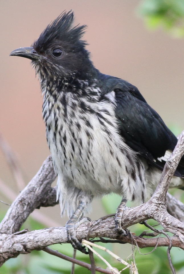 Levaillant's Cuckoo, or African Striped Cuckoo, Clamator levaillantii, at Shingwedzi, Kruger Park